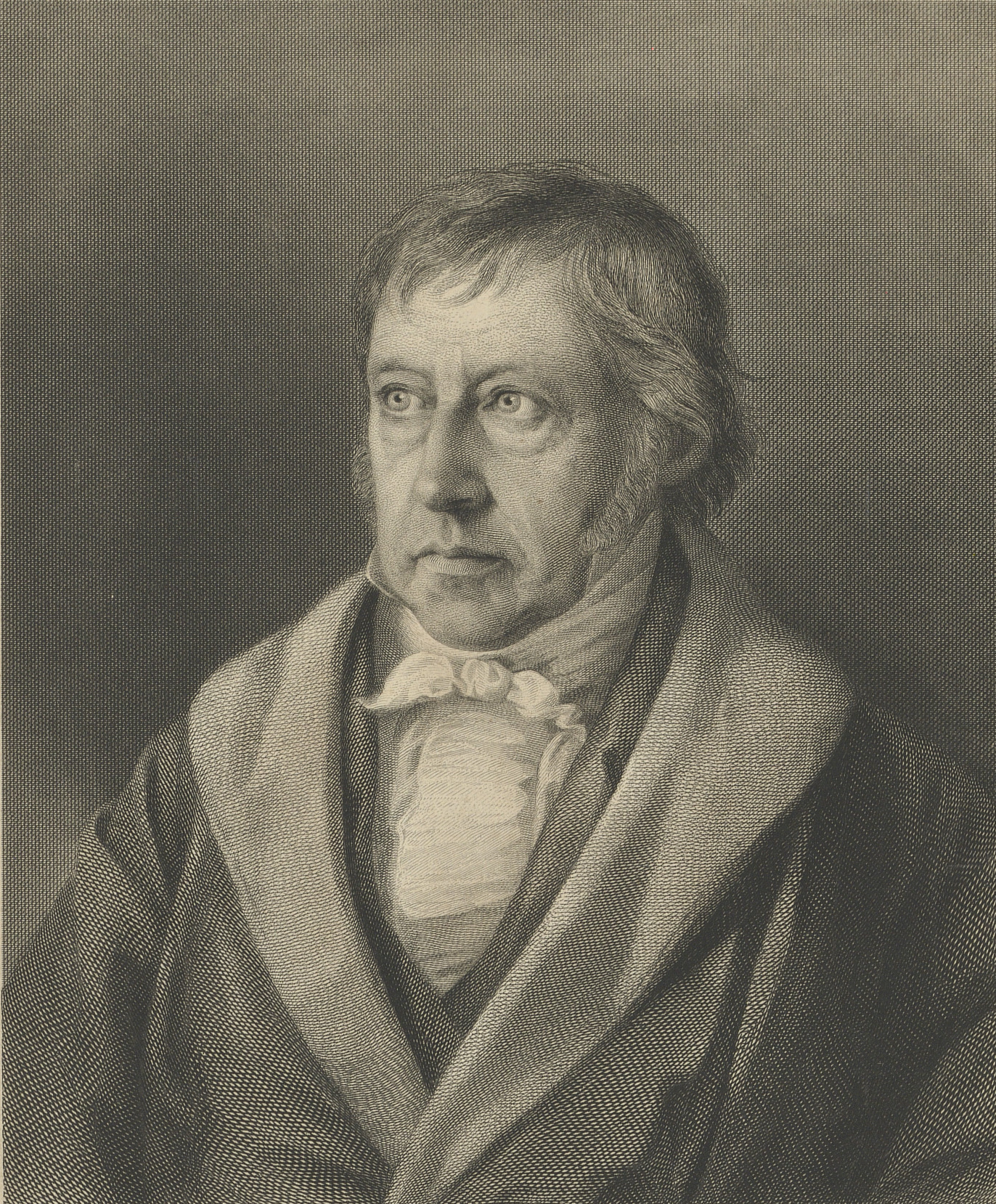 Portrait of G.W.F. Hegel (1770-1831)